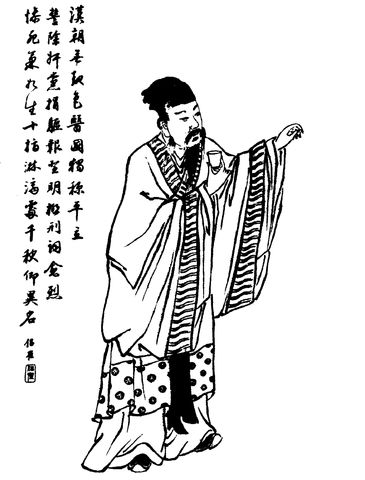 A Qing dynasty portrait of Ji Ping/Ji Ben